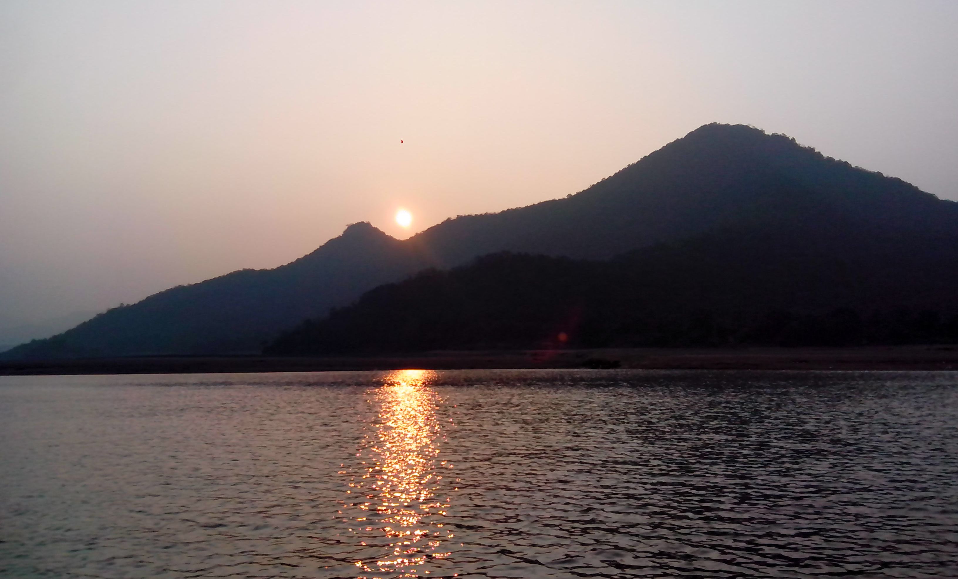 this is a pic of papikondalu.